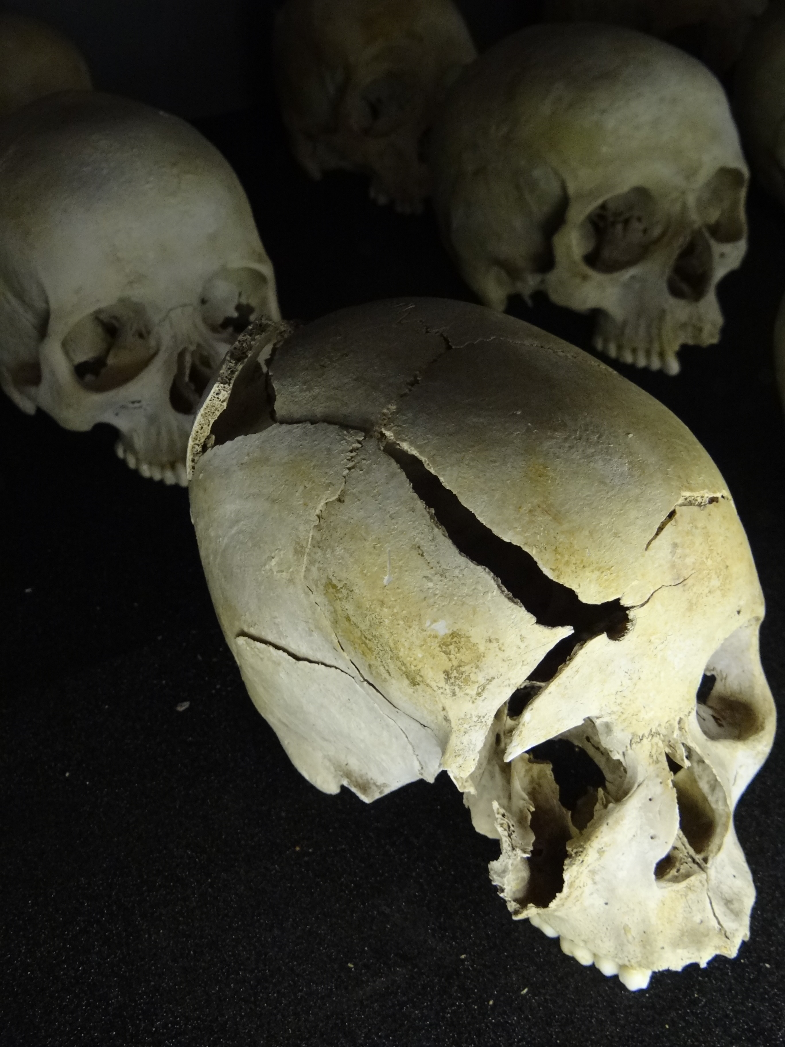 Skulls of Genocide Victims - Genocide Memorial Center - Kigali - Rwanda - 01